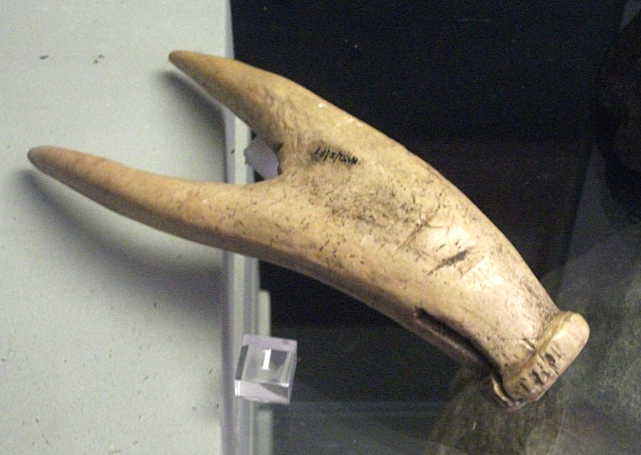 The head of an iron age hoe made of red deer antler, on display in Bedford Museum.